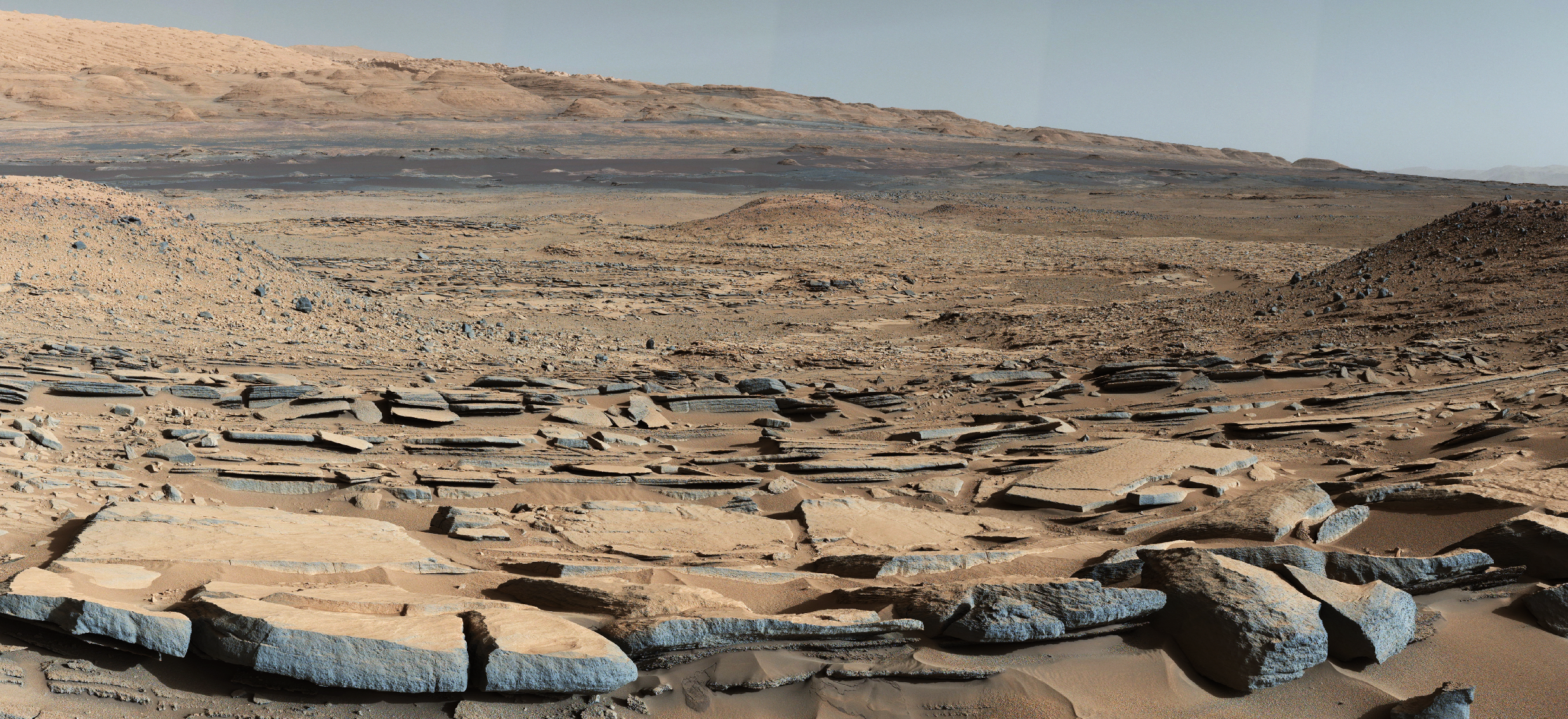 A view from the "Kimberley" formation on Mars taken by NASA's Curiosity rover. The strata in the foreground dip towards the base of Mount Sharp, indicating flow of water toward a basin that existed before the larger bulk of the mountain formed. The colors are adjusted so that rocks look approximately as they would if they were on Earth, to help geologists interpret the rocks. This "white balancing" to adjust for the lighting on Mars overly compensates for the absence of blue on Mars, making the sky appear light blue and sometimes giving dark, black rocks a blue cast. This image was taken by the Mast Camera (Mastcam) on Curiosity on the 580th Martian day, or sol, of the mission.